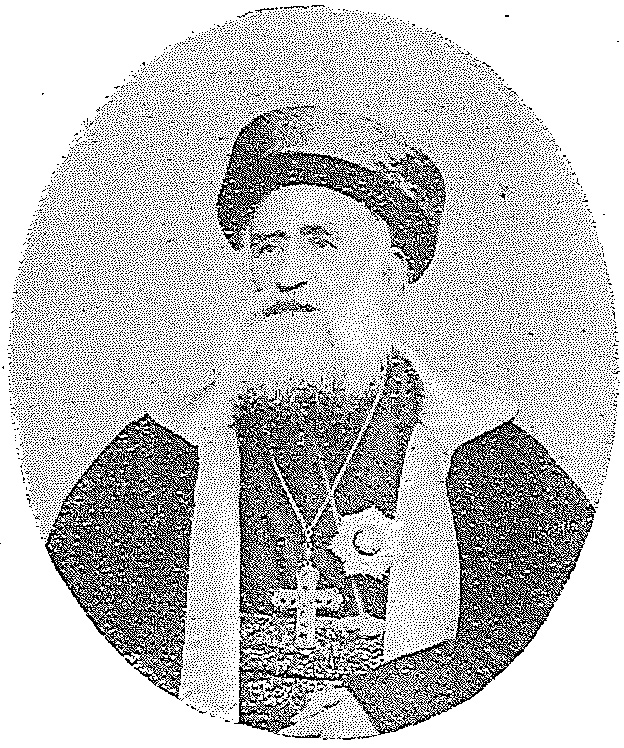 Audishu V Khayyath - Patriarch of Babylon of the Chaldeans